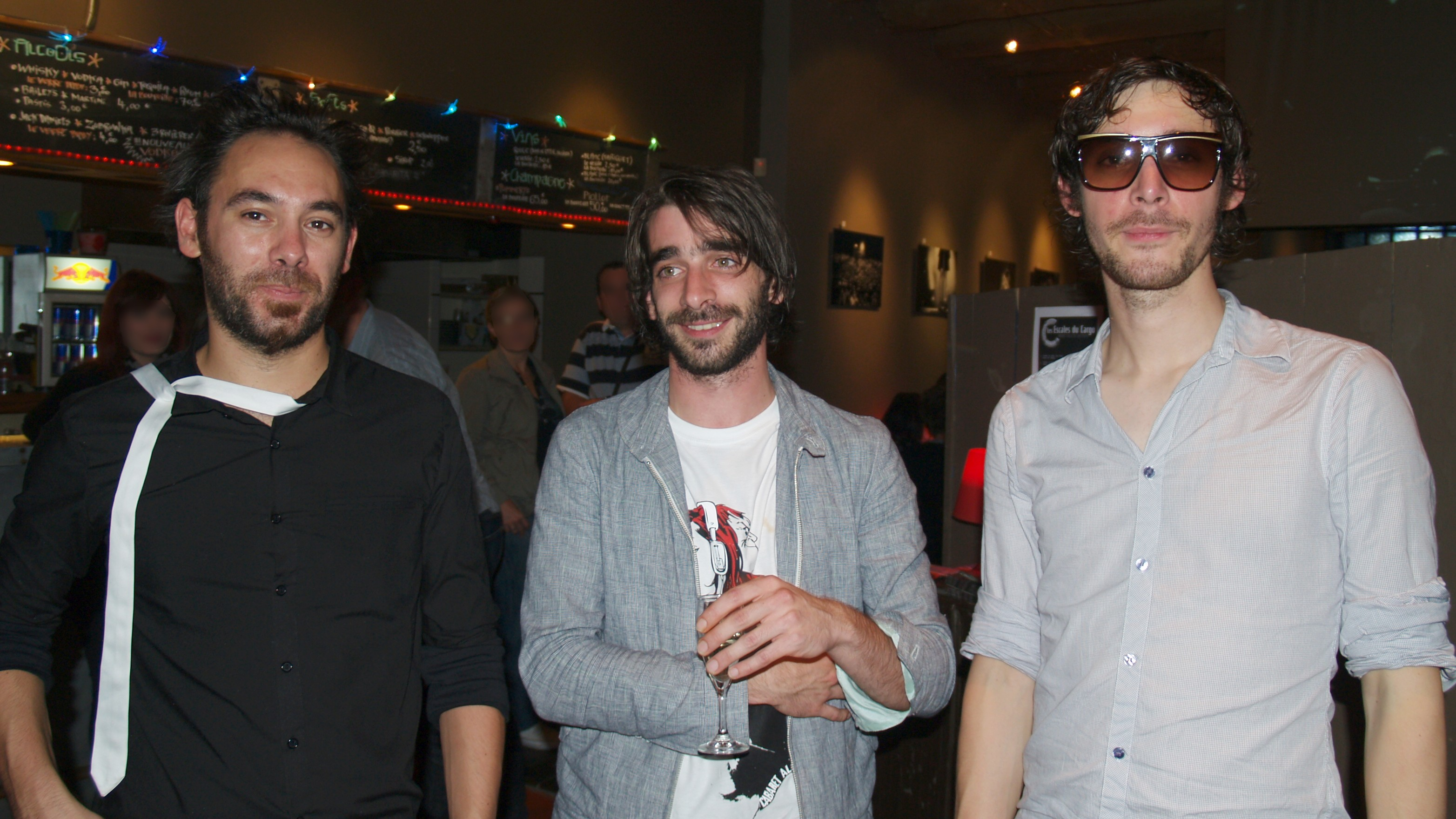 The french band Pony Pony Run Run after a concert at the Cargo de Nuit in Arles in 2009.